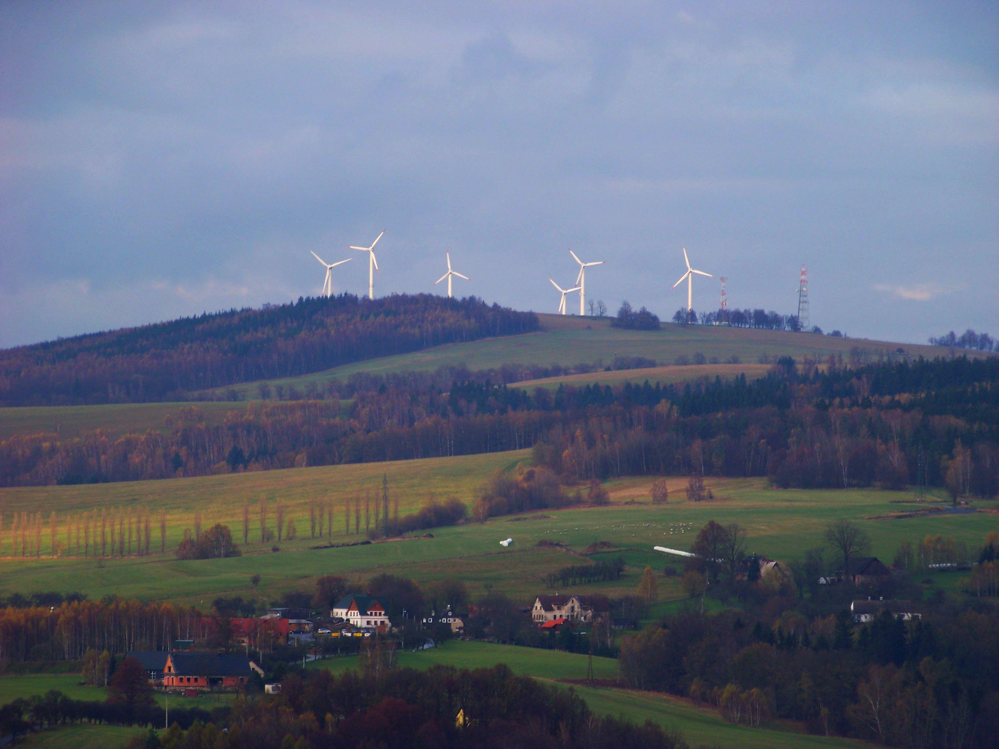 Liberec District, Liberec Region, Czech Republic. A view from Chrastava to Chrastava-Vysoká village and wind turbines at Lysý vrch in Heřmanice-Vysoký. - Google Maps - Google Earth